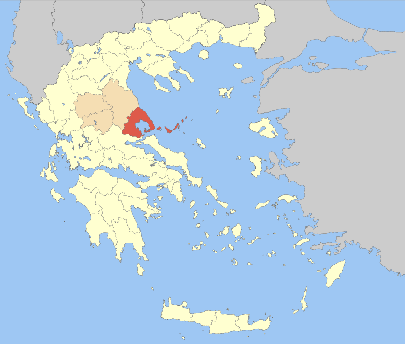 Locator map of Magnisia prefecture (Νομός Μαγνησίας) in Greece